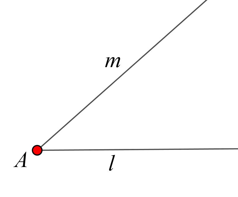 Vertex with rays